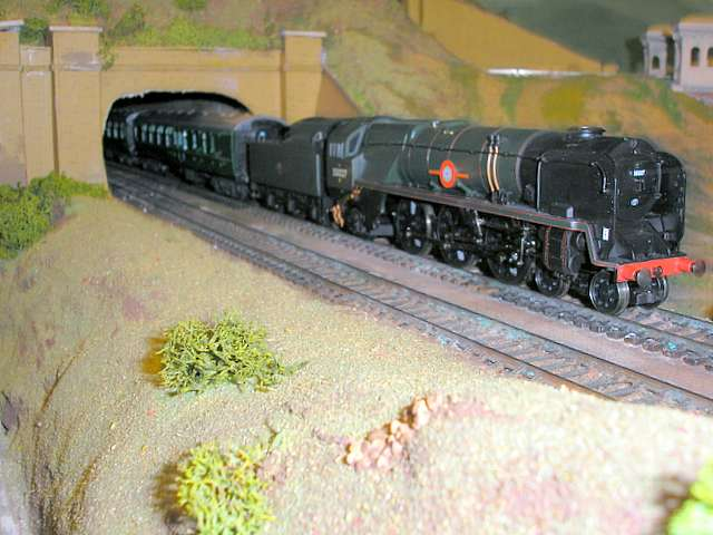 Hornby's new "Merchant Navy leaves Balcombe tunnel.